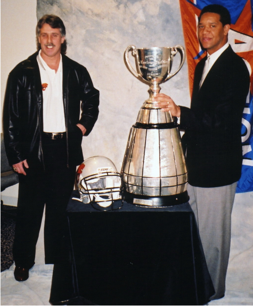 January 2001. Kicker Lui Passaglia & quarterback Damon Allen of the CFL's BC Lions pose with Grey Cup.